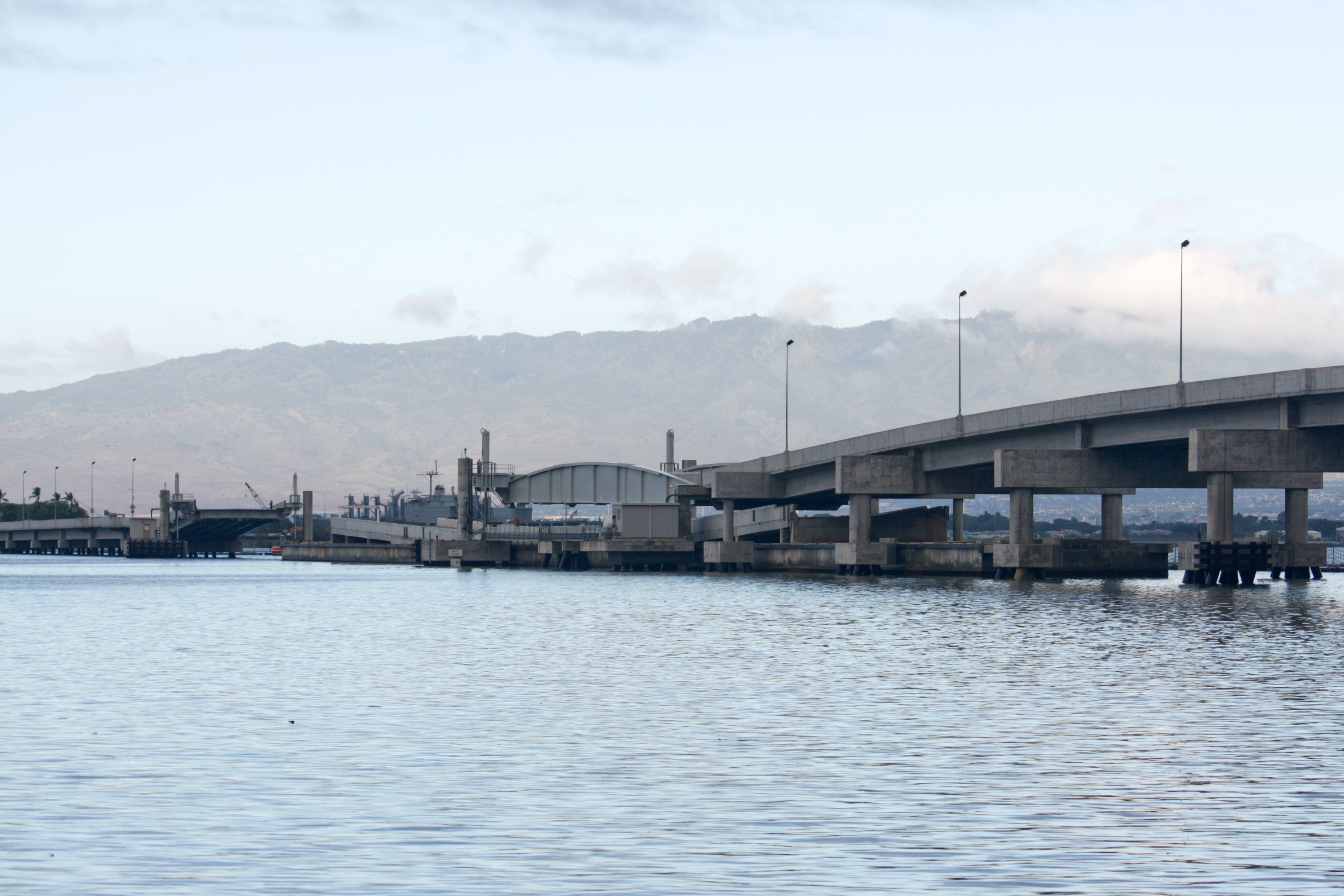 The floating drawspan of the Admiral Clarey Bridge (aka the Ford Island Bridge) shown partially open.